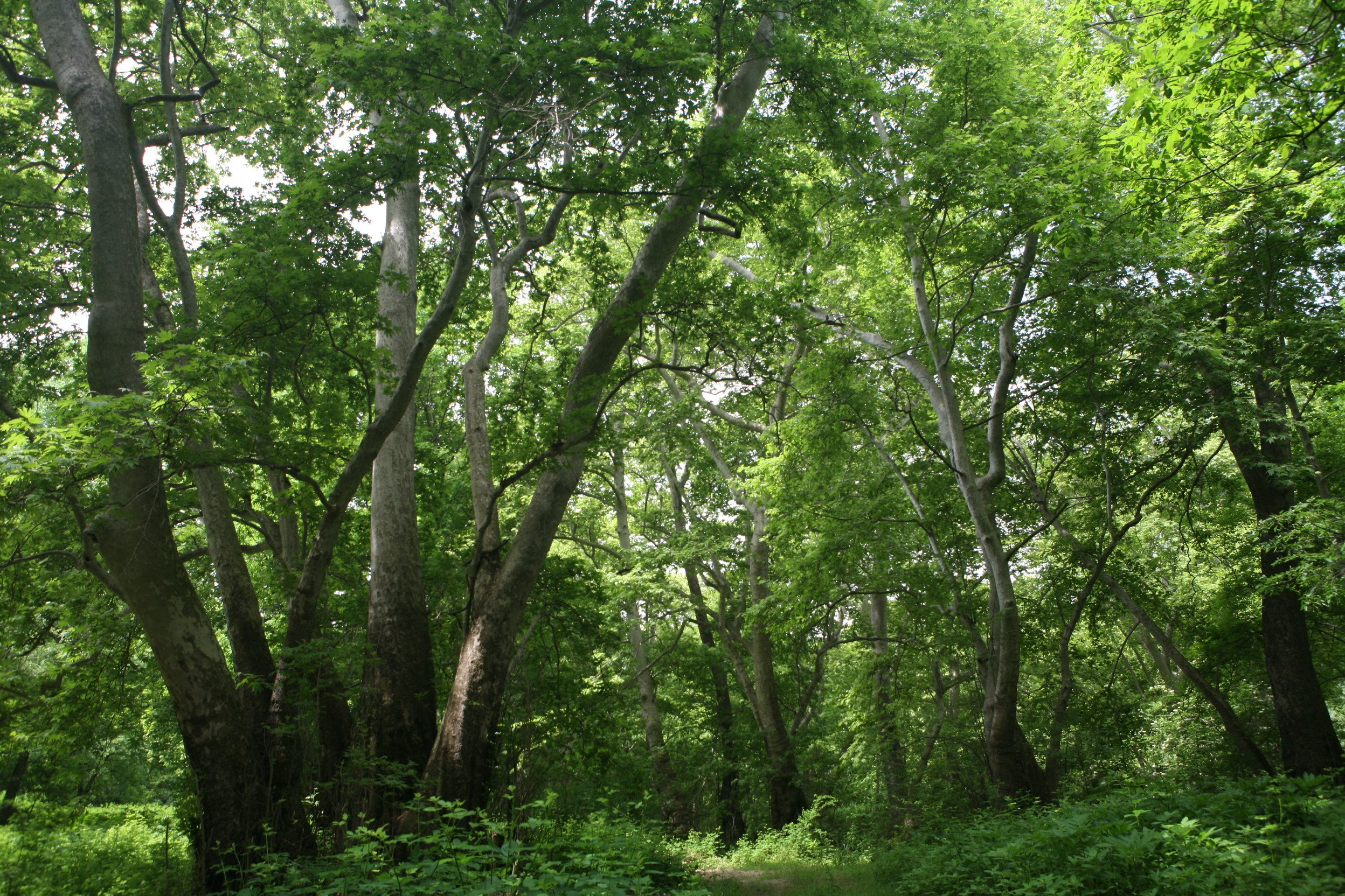 The Oriental Plane Platanus orientalis grove in the Valley of the Tsav River